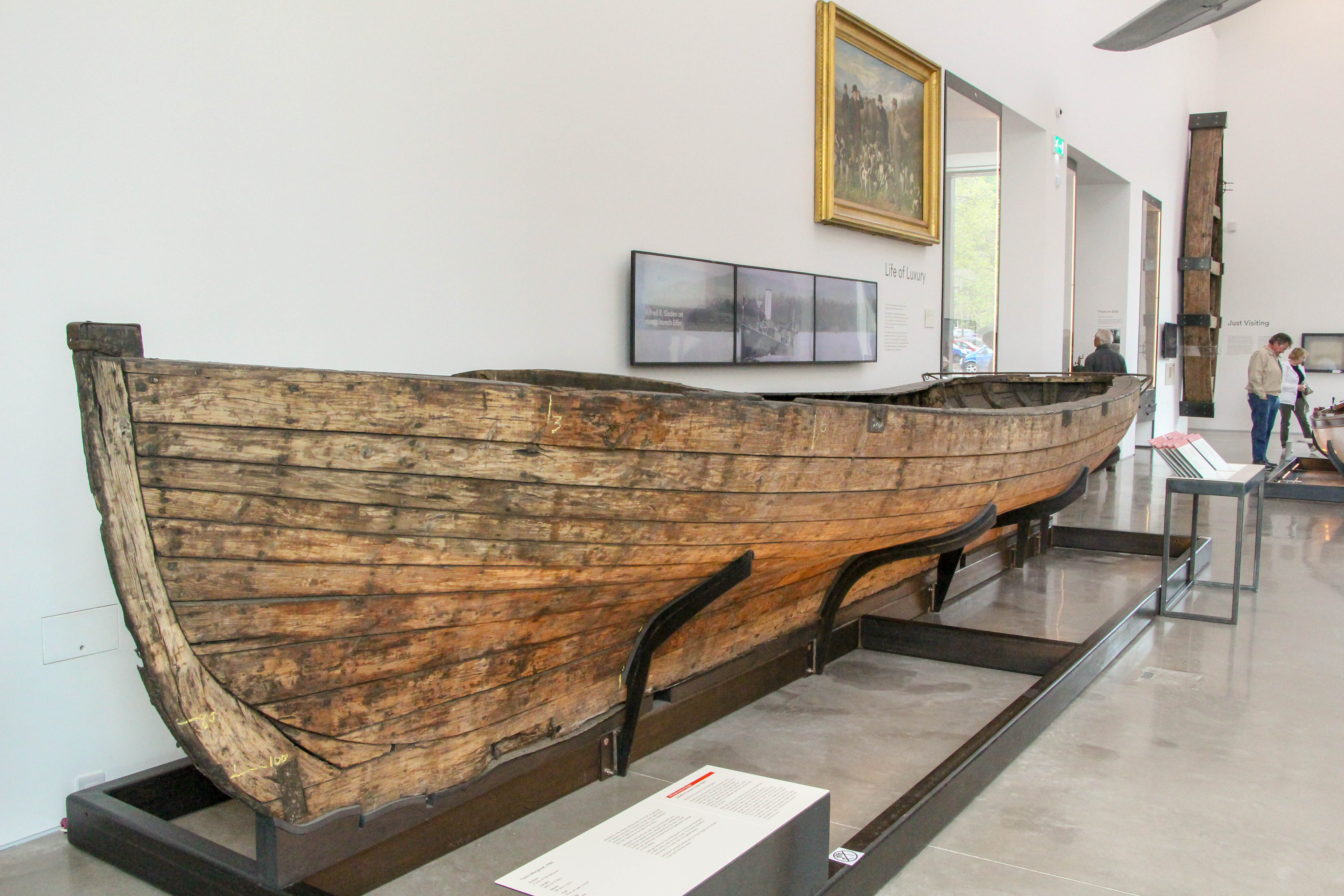 The hull of the yacht Margaret displayed in the Windermere Jetty museum. Built by Purdy of Whitehaven c.1780.